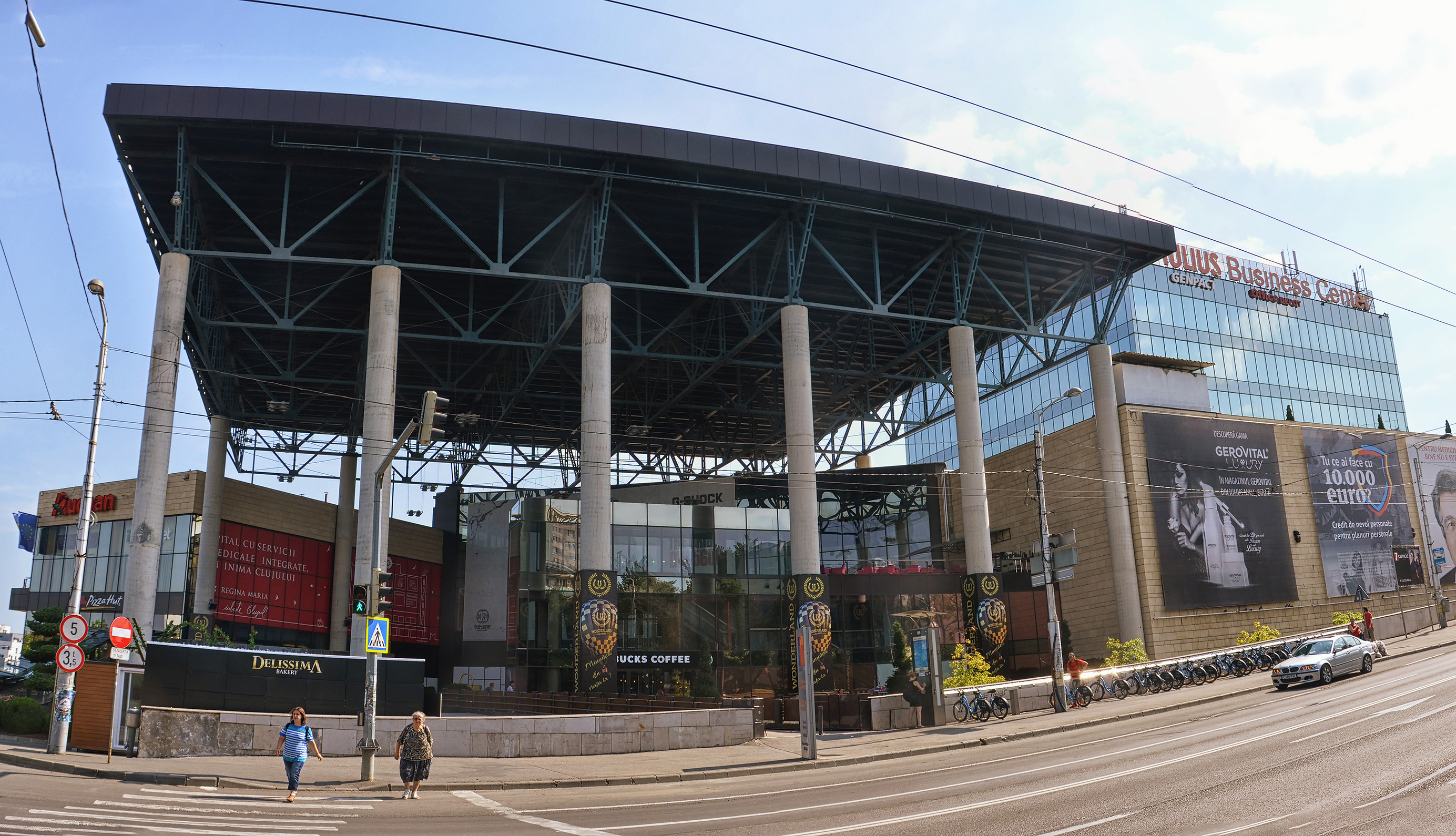 The Iulius Mall in the Gheorgheni neighborhood in Cluj-Napoca, Romania